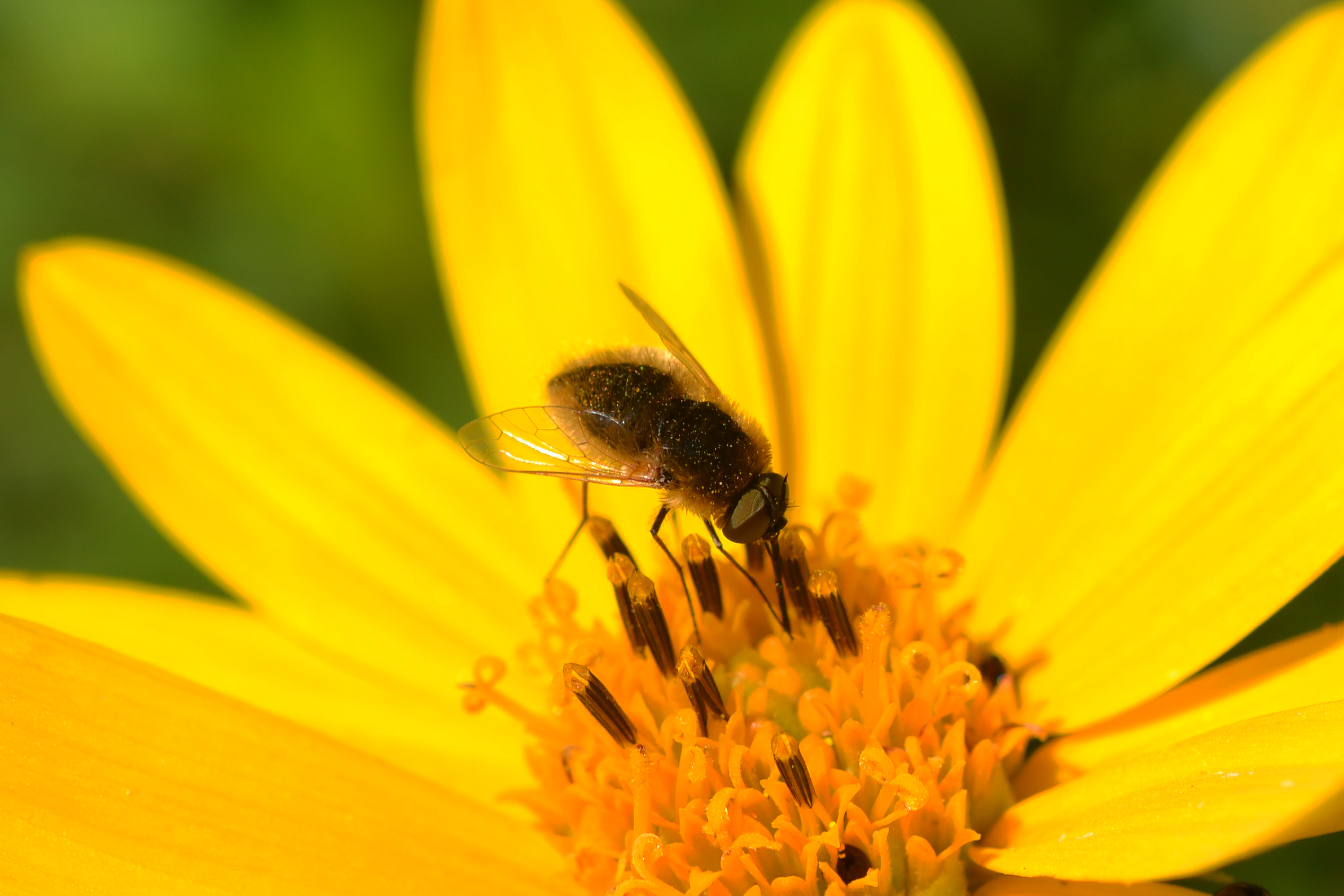 Ellis Lake Wetlands, Fairfield, Ohio